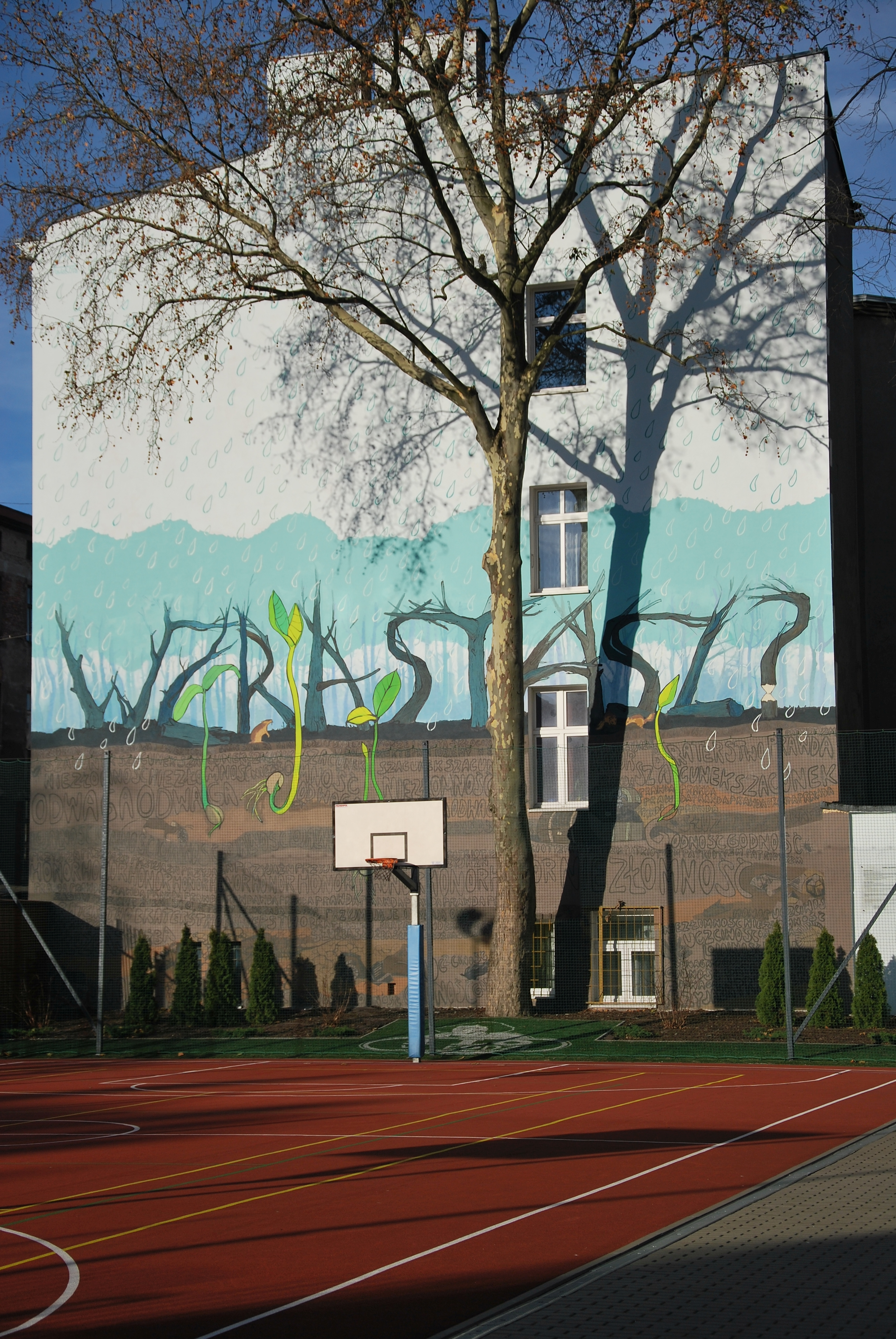 Mural hommage to Janusz Boisse, by Aleksandra Adamczuk & Paulina Nawrot, Łódź Ist Lyceum, 41 Więckowskieg Street